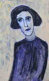 portrait of Helen Schucman, scrib of The Course of Miracles